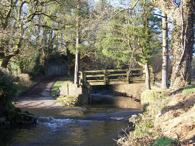 Ford and Footbridge over the River Gwili The ford assists the passage of vehicles servicing a small local sewage works upstream of the bridge, whilst the foot bridge provides a safe crossing for a right of way. An inscription roughly etched into one of the bridge's abutments records the fact that it was built by J. Owen, M, Davies, and D. Walters in 1985